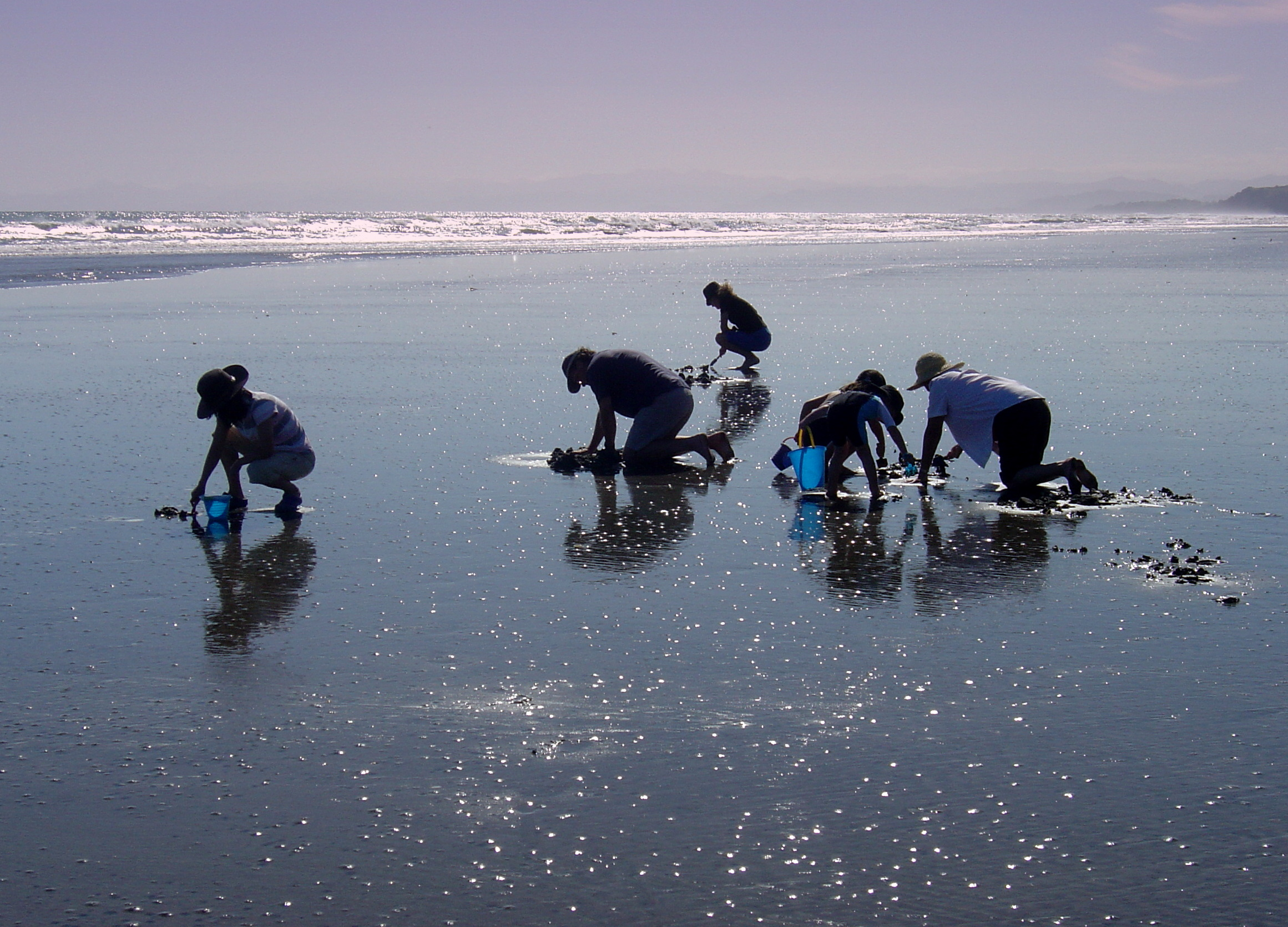 Digging for tua tuas on Ohope Beach.